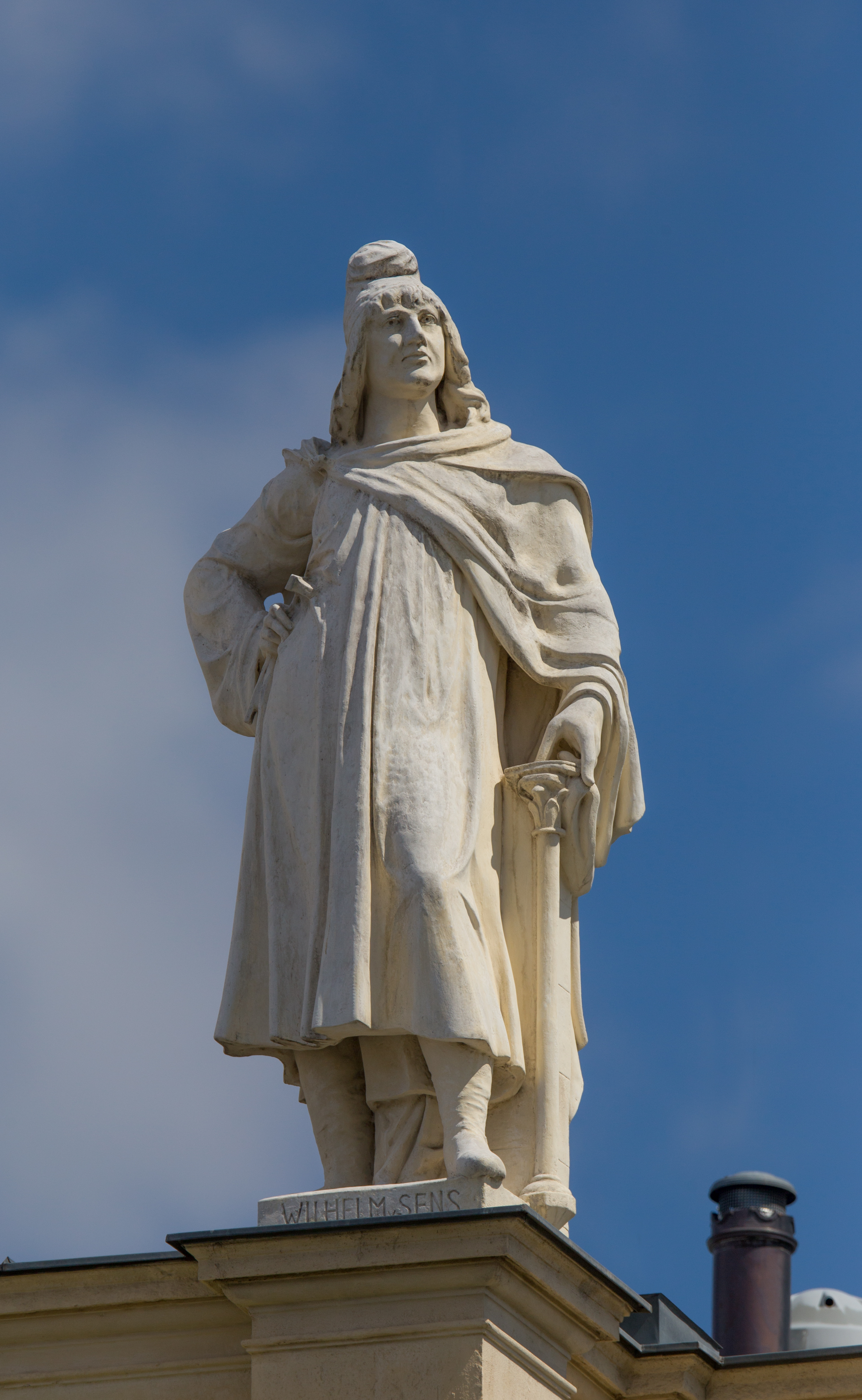 William of Sens was a 12th-century French architect, supposed to have been born at Sens, France. He died at Canterbury on 11 August 1180. He is referred to in September 1174 as having been the architect who undertook the task of rebuilding the choir of Canterbury cathedral, originally erected by Conrad, the prior of the monastery, and destroyed by fire in that year. William had supposedly worked upon the first major Gothic religious building, the Sens Cathedral near Paris and as such was brought in for his skills in the modern, lighter method of building. The making of this work was supported by Wikimedia Austria. For other files made with the support of Wikimedia Austria, please see the category Supported by Wikimedia Österreich.